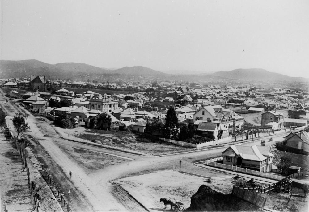 View of South Brisbane, ca. 1888. View of South Brisbane taken from the South Brisbane Town Hall, around 1895. Roads, houses and churches are visible. Rail line between Vulture Street and South Brisbane has been started.